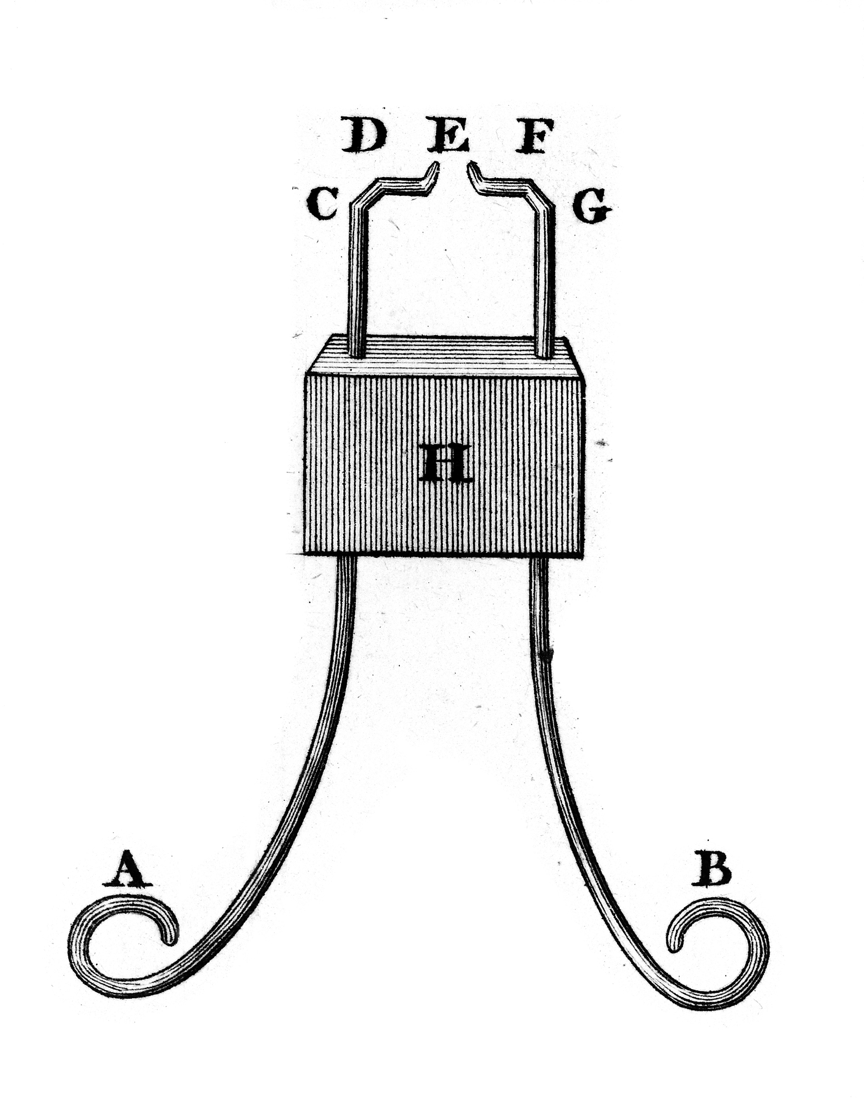 A 'contrivance' for passing electric charges thriugh a tooth in order to stop the pain of toothache. Rare Books Keywords: Electrotherapy; Physics; Dentistry